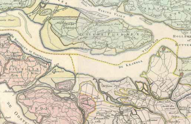 Photo of old map, showing the Krammer Volkerak in 1773.